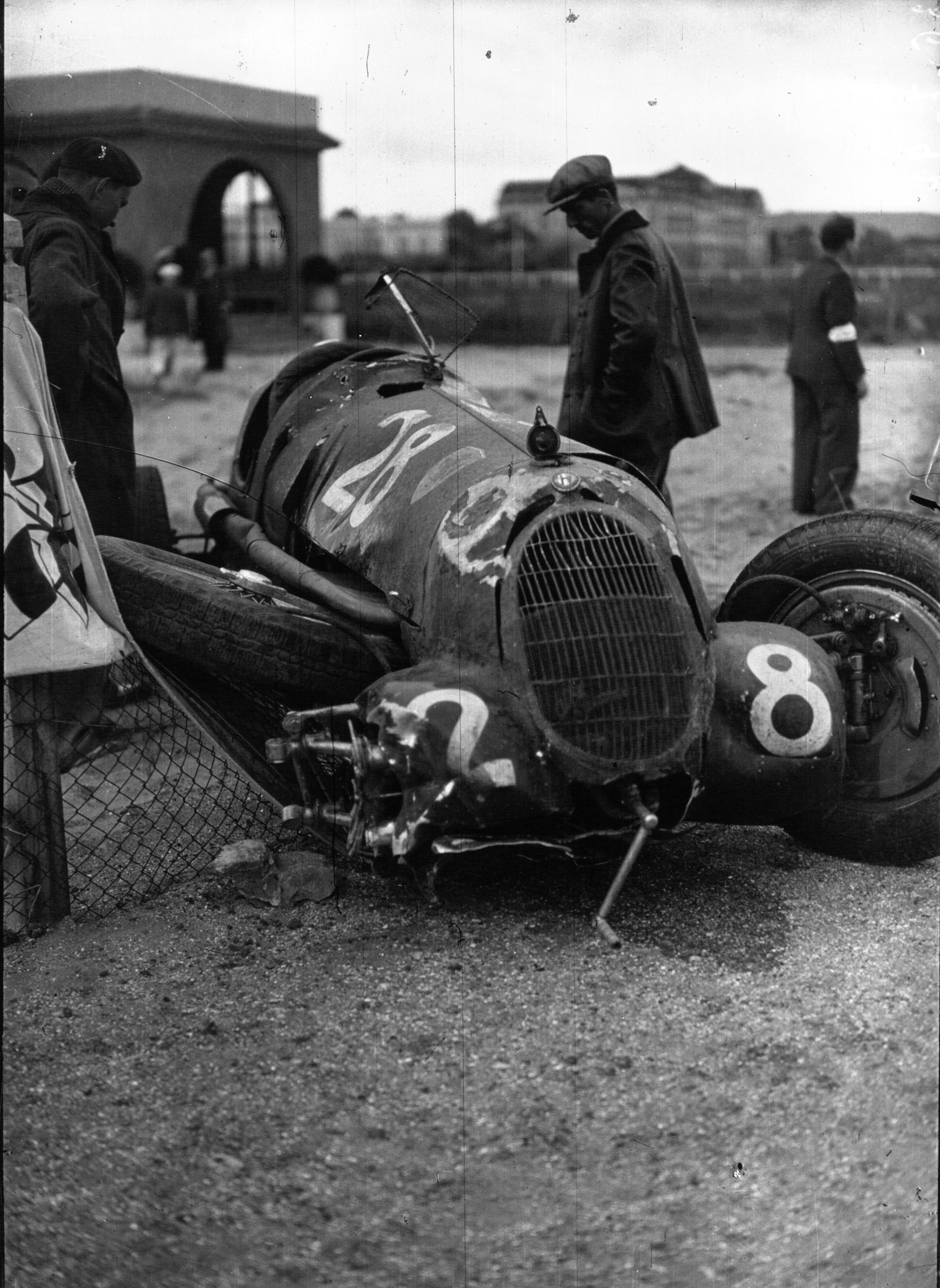 Giuseppe Farina's damaged racecar at the 1936 Deauville Grand Prix